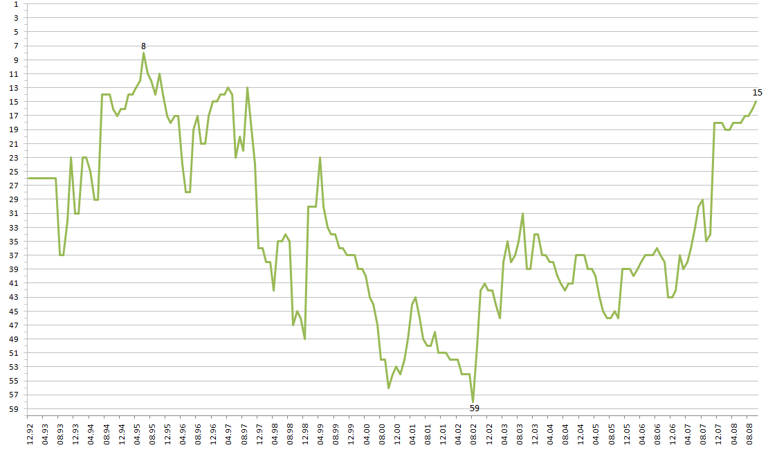 Ranking Chart of Bulgaria national football team